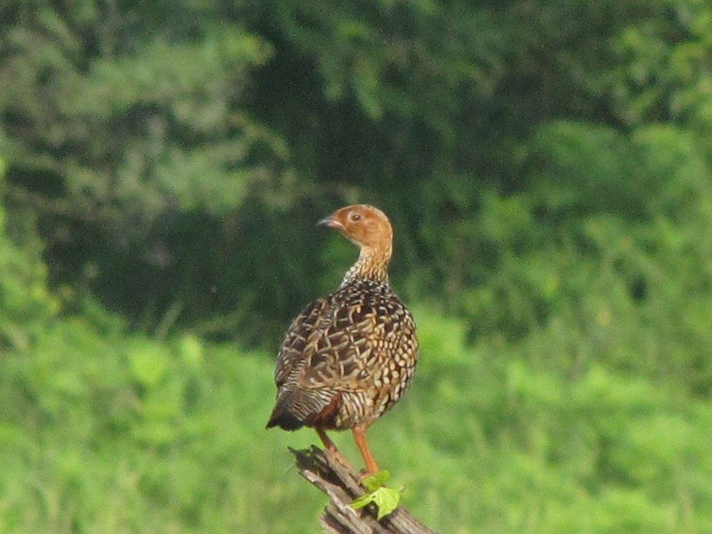 Painted Francolin (Francolinus pictus) in Sarvatra Bird Sanctuary, College Of Military Engineering, Pune.